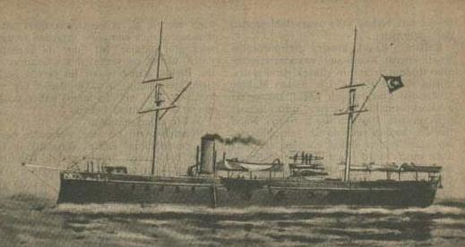 Turkish Ironclad Necm-i Sevket, launched in 1868 and serving until 1913.